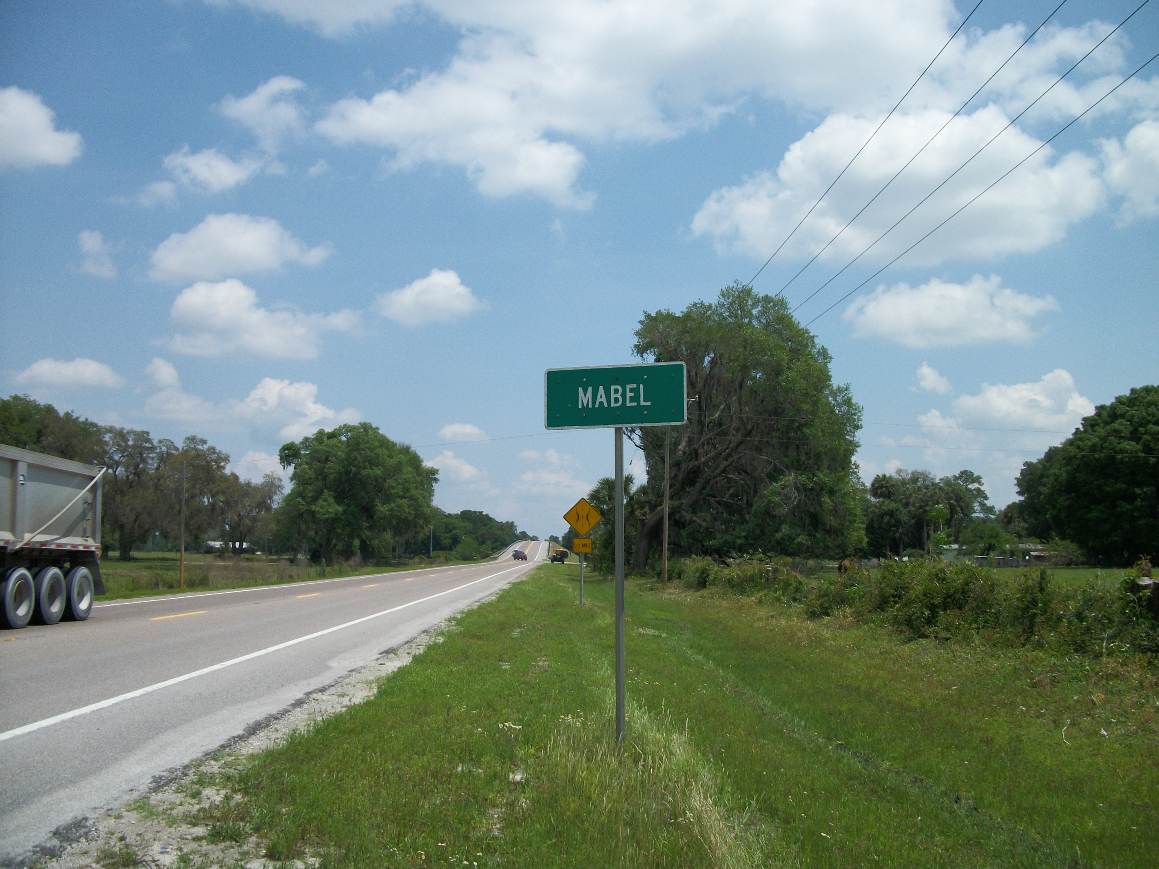 Eastbound sign on Florida State Road 50 as it enters the barley existent community of Mabel in Sumter County, Florida.